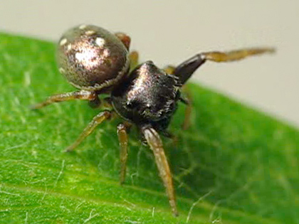 Female Zygoballus sexpunctatus jumping spider. Cropped screenshot from the video "Behavior of Zygoballus sexpunctatus jumping spiders in Greenville County, SC, USA".